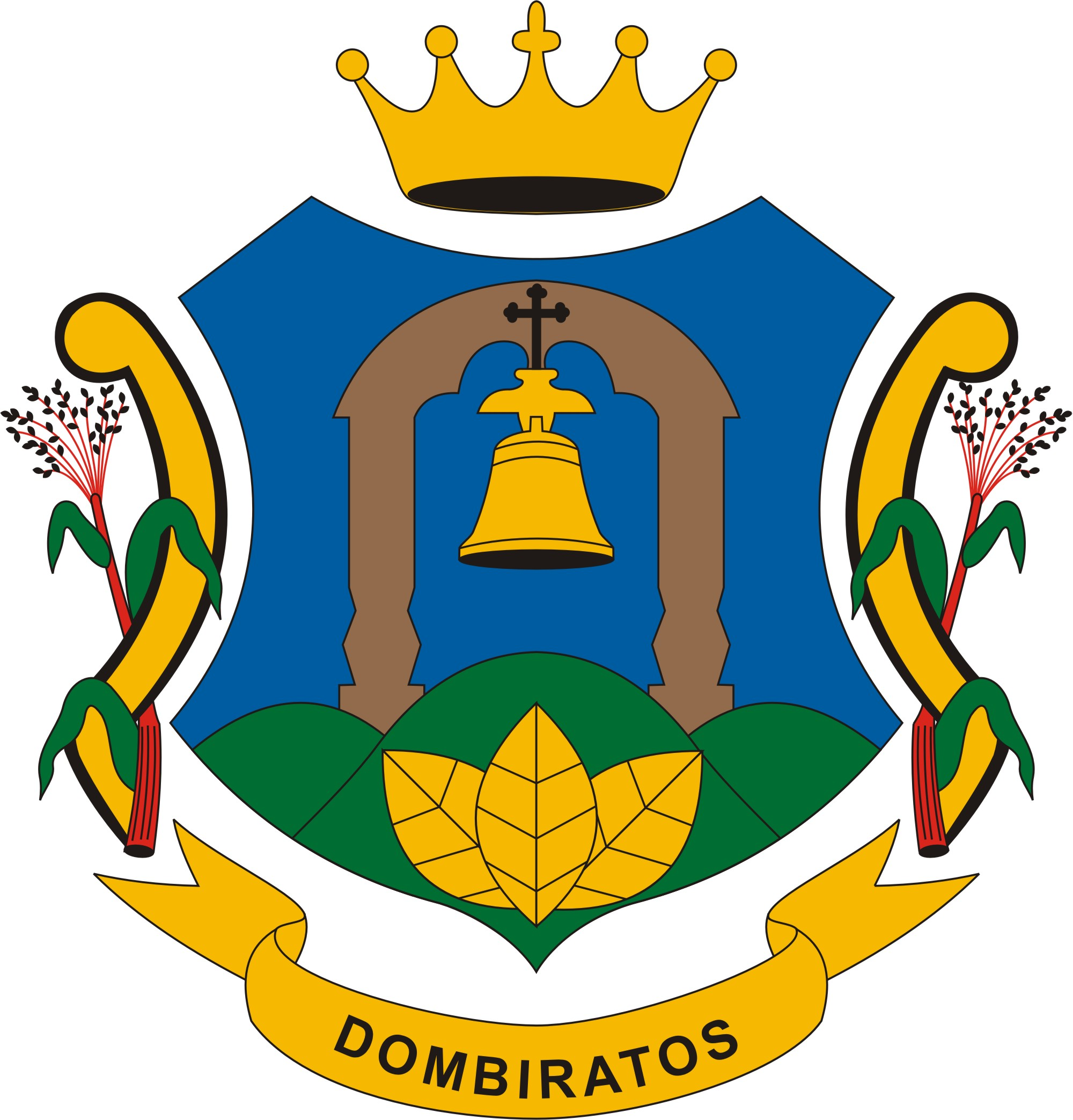 Coat of arms of Dombiratos, Hungary